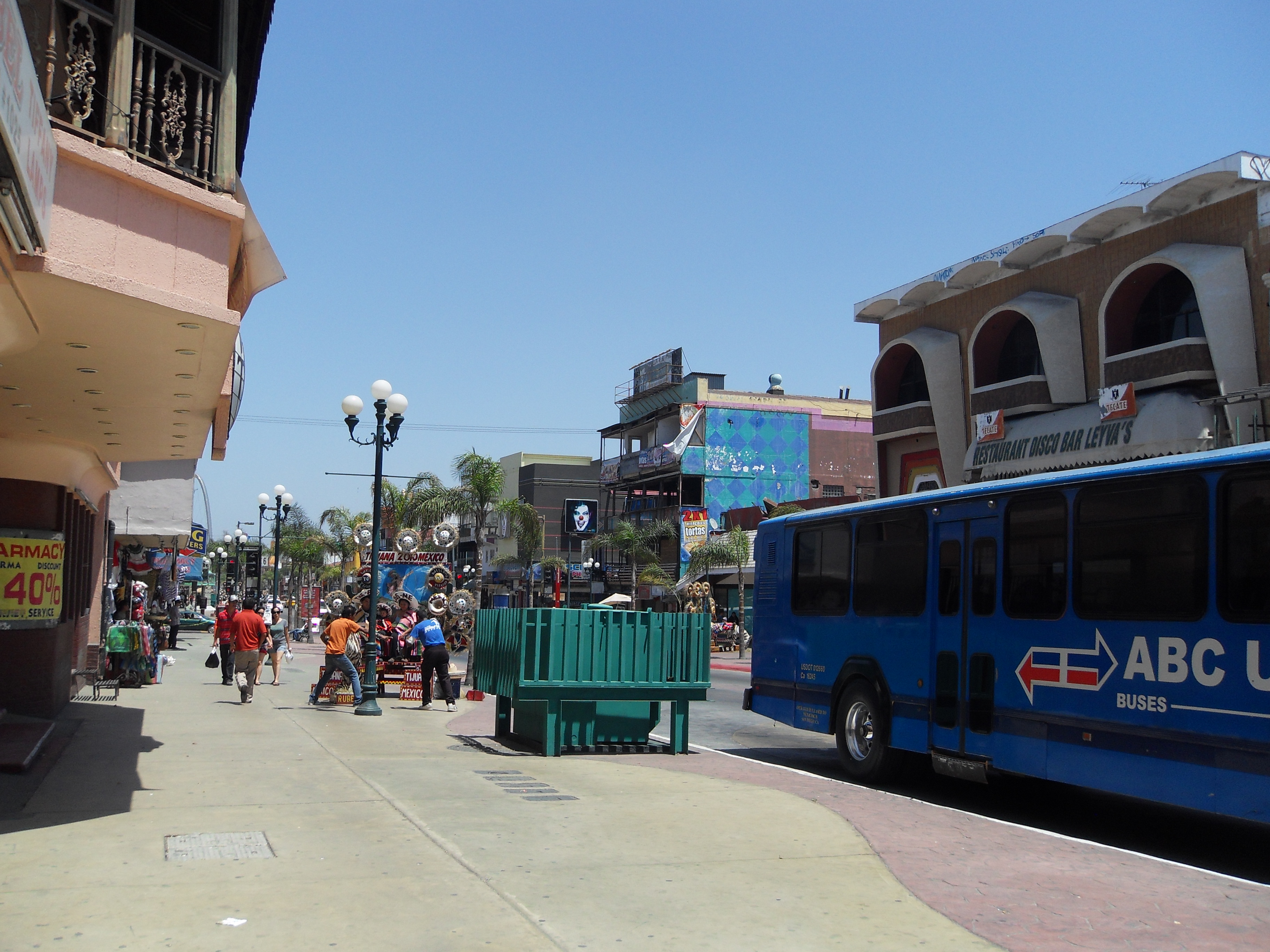 Av Revolución in Centro neighborhood.